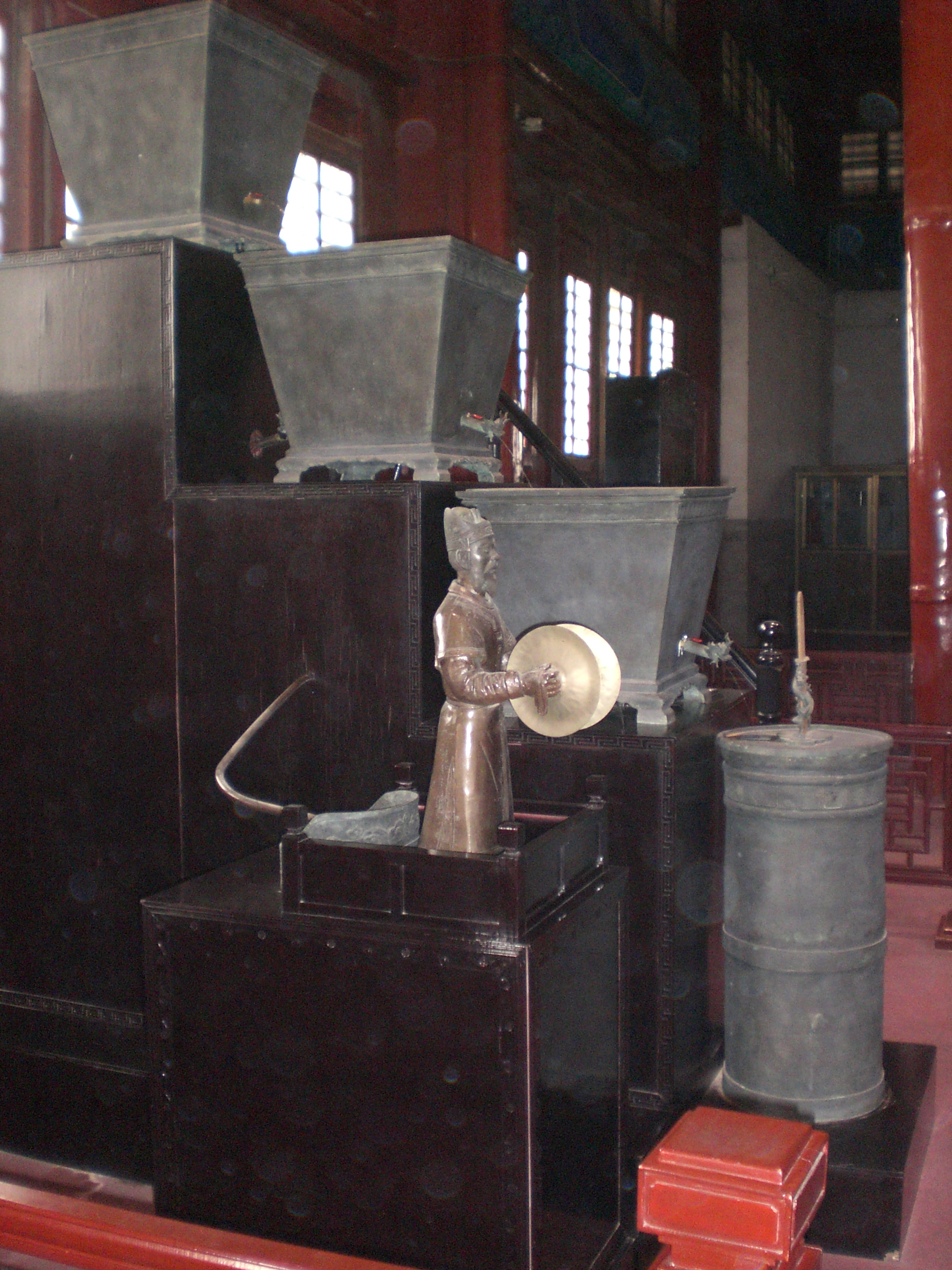 Clepsydra in the Drum Tower, Beijing, China